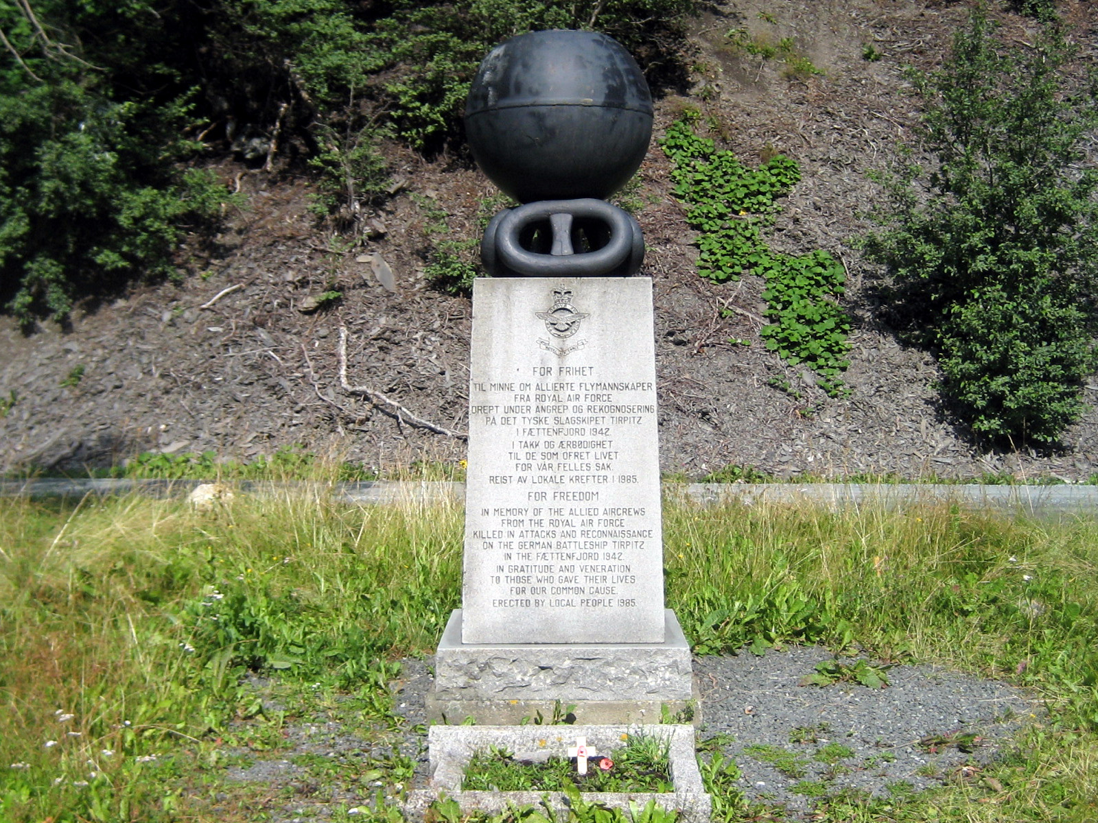 War memorial near the Fættenfjord in Norway, in memory of the allied aircrews killed in attacks and reconnaissance on the battleship Tirpitz in 1942.